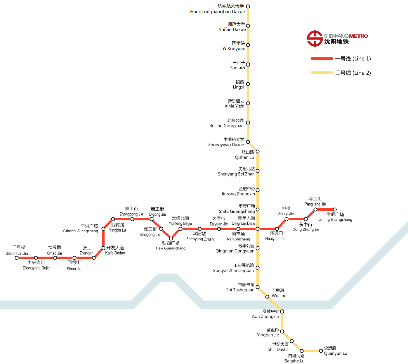 current map of Shenyang Metro